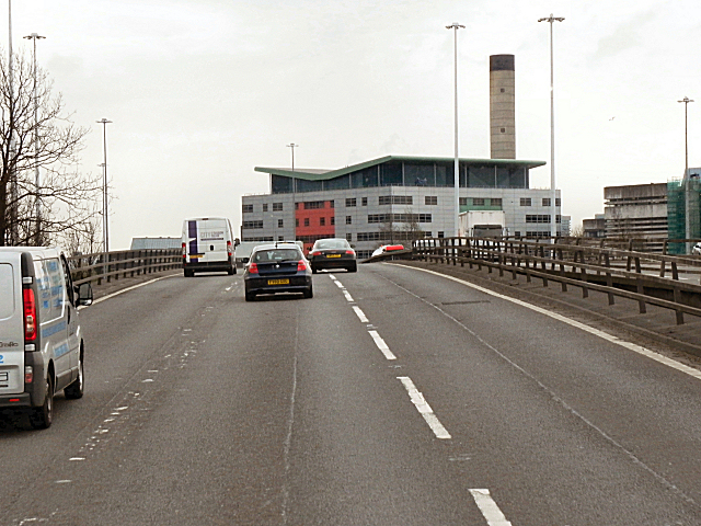 M8 Motorway, Glasgow